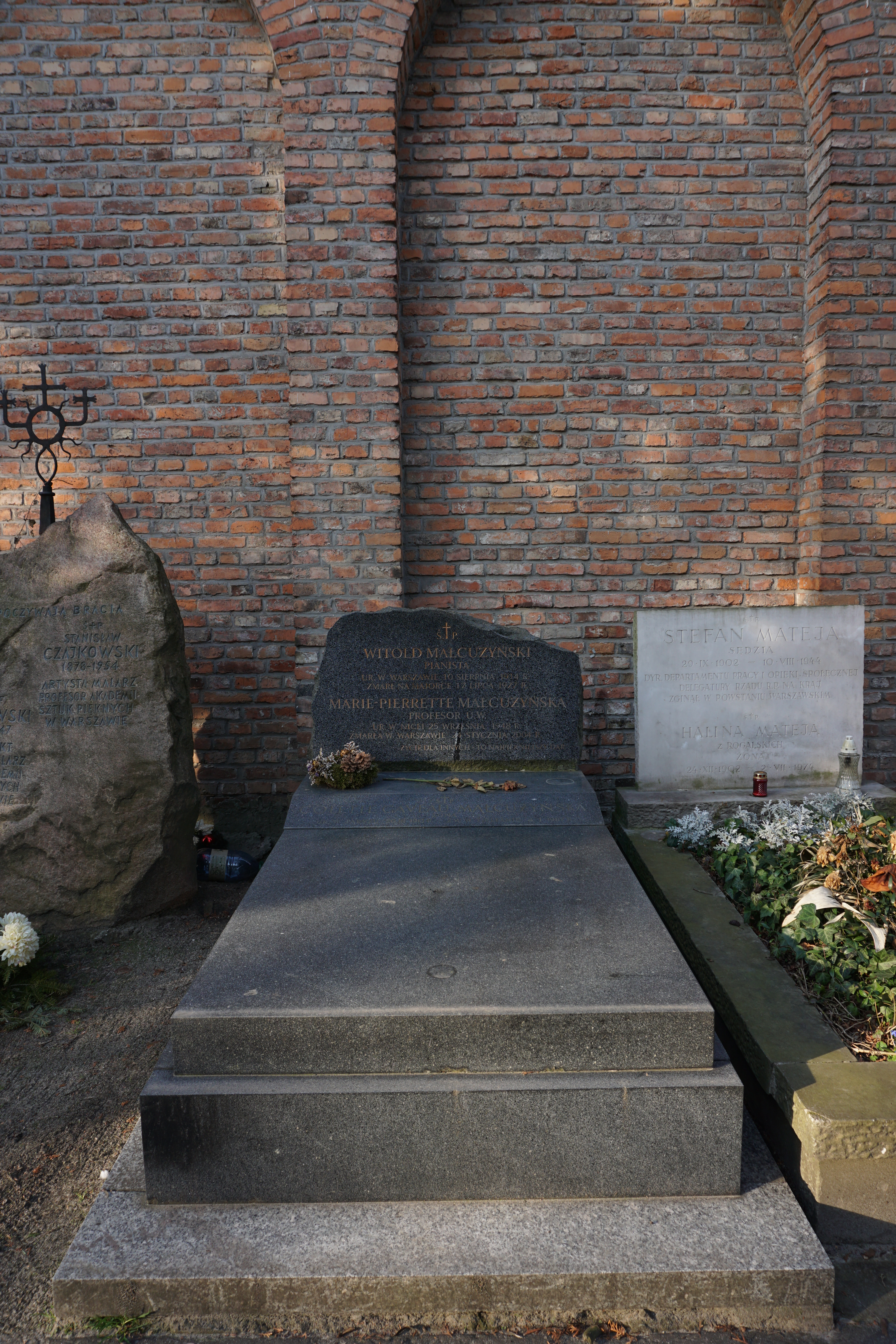 The grave of Witold Małcużyński at the Powązki Cemetery (Avenue of Deserved, grave 31)